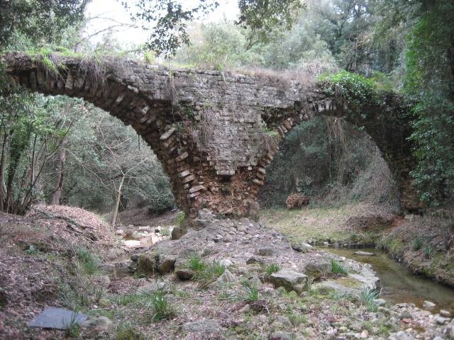 'Pont de la Valmasque'; two arches of the aquaduct